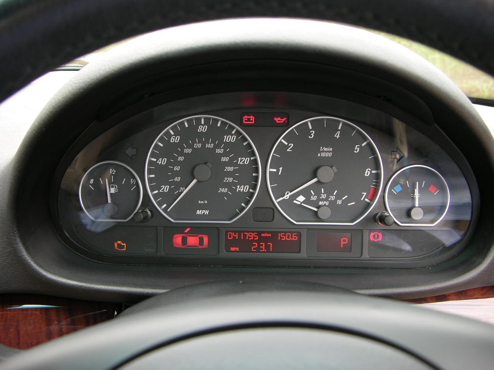 The Instrument Cluster of a BMW E46 330Ci Sport Convertible